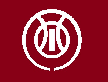 Flag of Kawanishi Yamagata